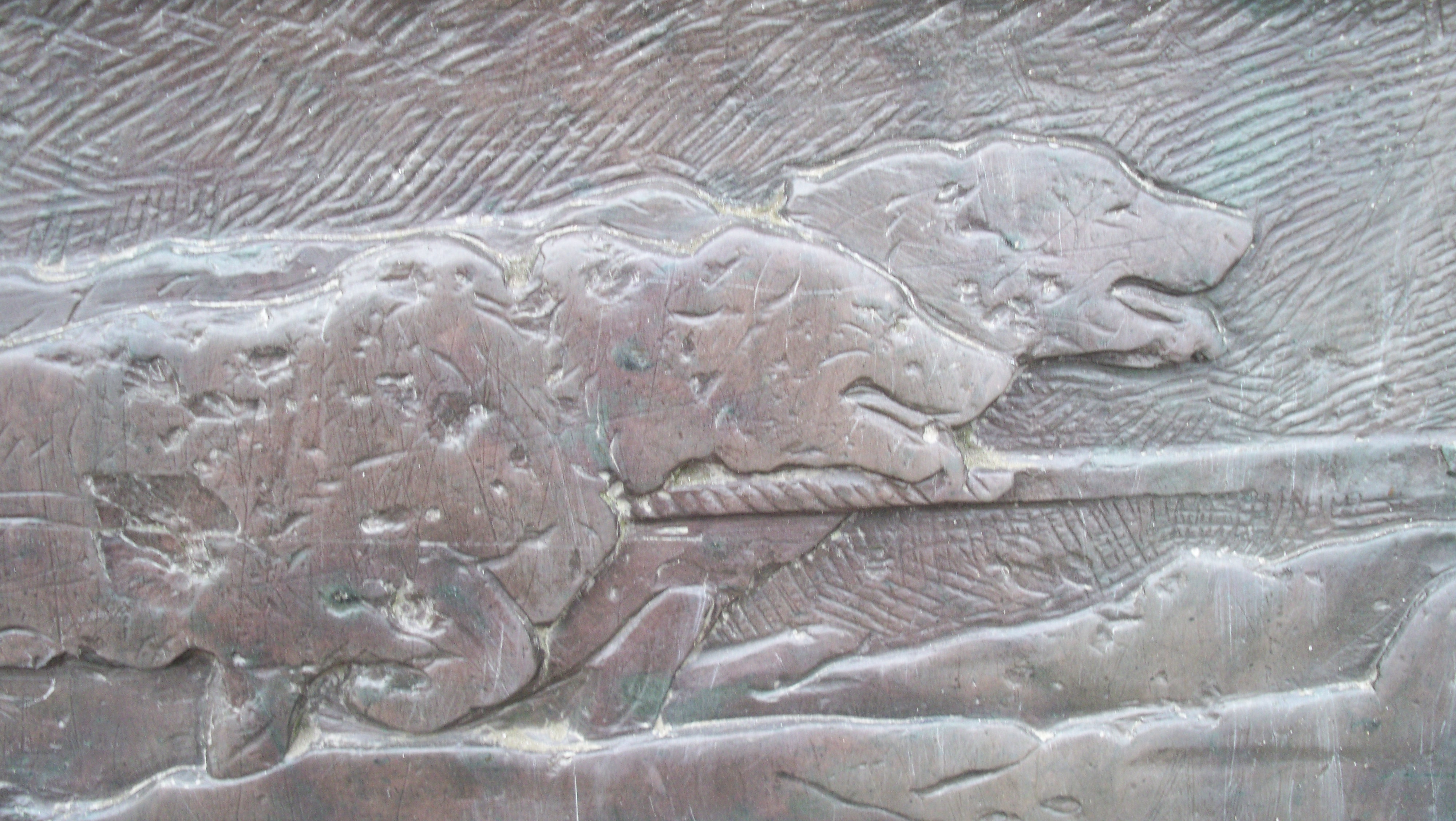 Detail of plaque at statue of Balto, sculpted by Frederick Roth, erected in Central Park on December 17, 1925.